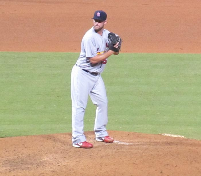 Barret Browning Pitching in Philadelphia on 2012 08 10